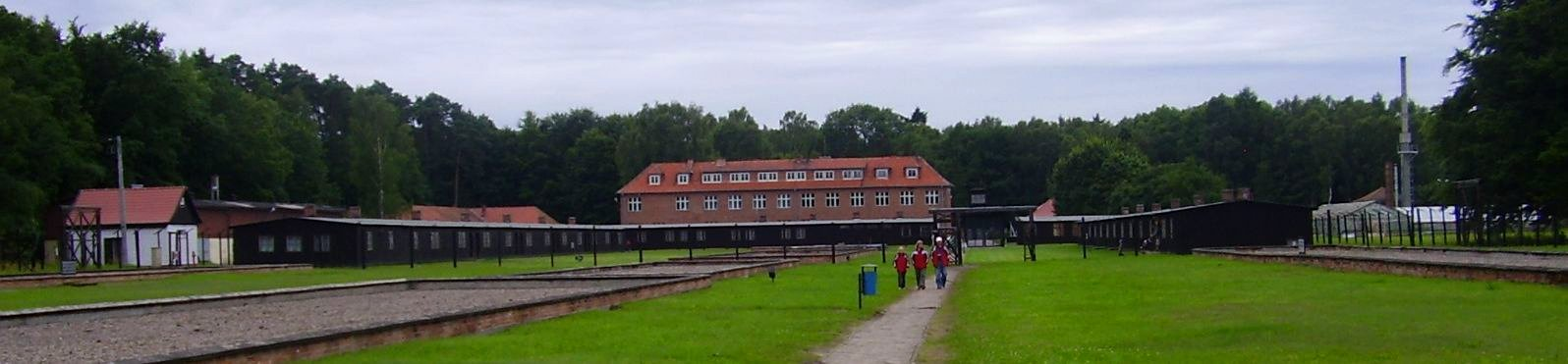 KL Stutthof